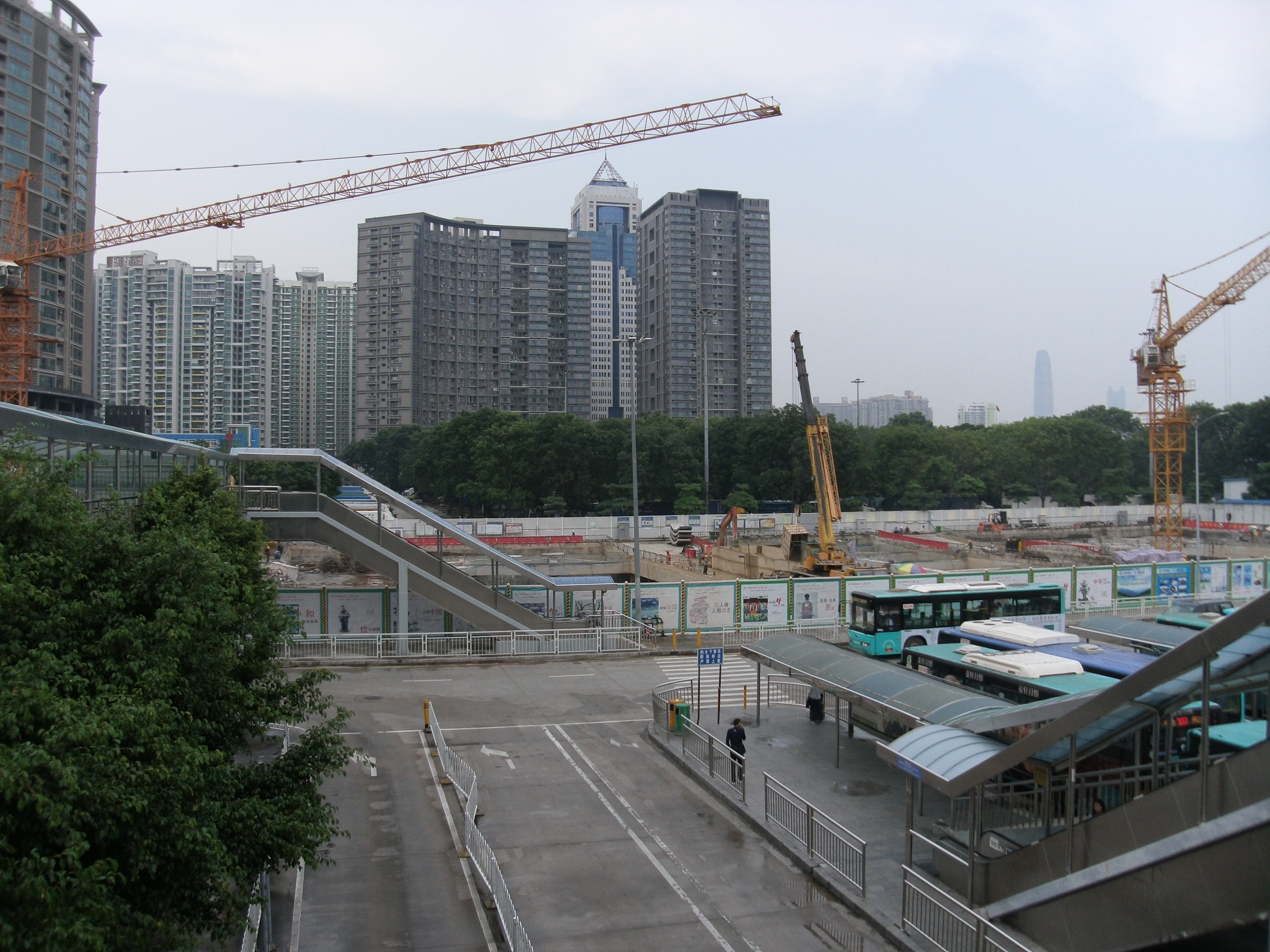 huanggang port bus terminus